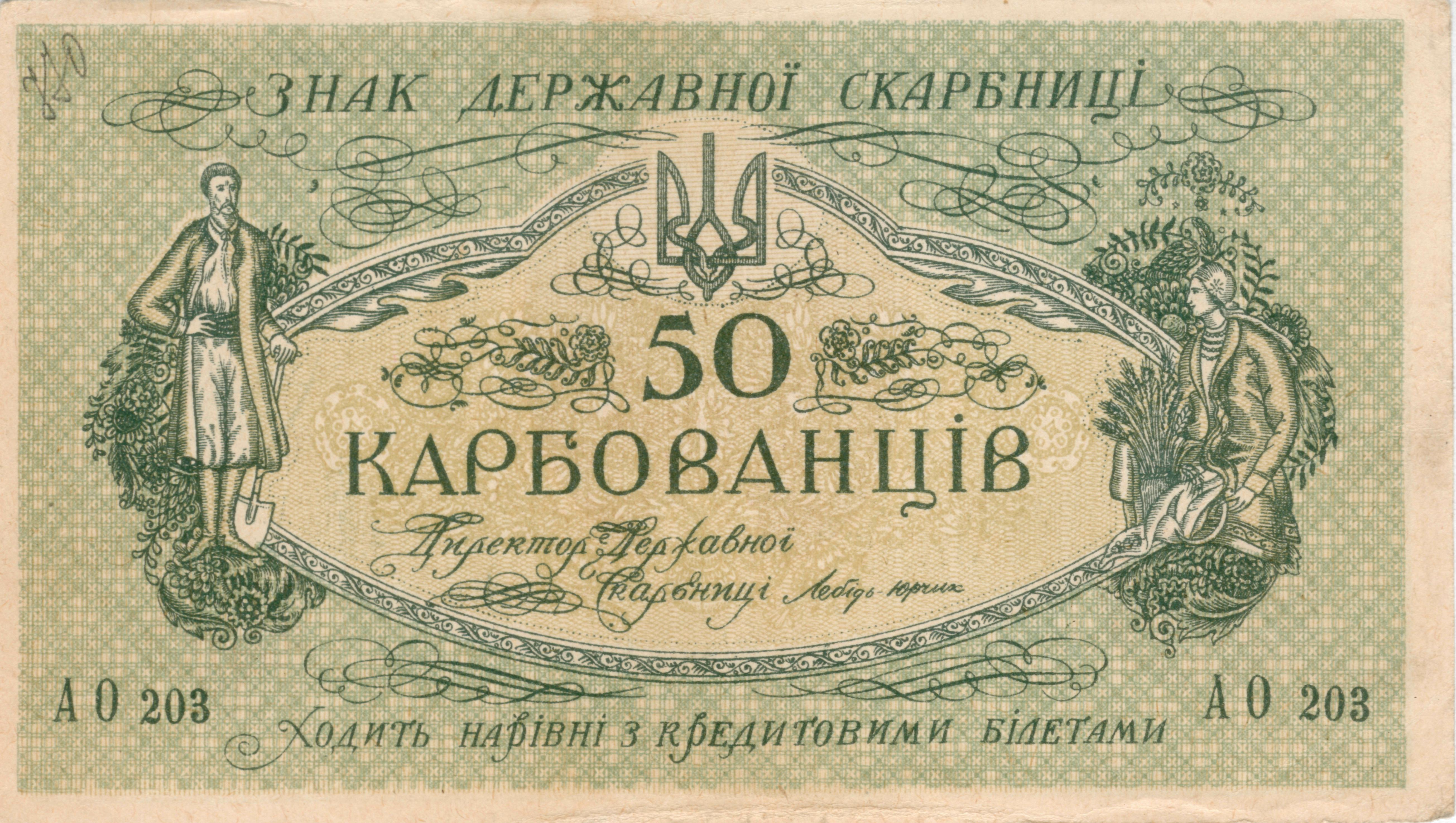 The Banknote of The State Treasury. The period of circulation since April, 1918 till may, 1919. Size: from 73,5x130 mm, till 77x133 mm witout water-marks. By the picture of A. Krasovskyy. Made in Odessa.